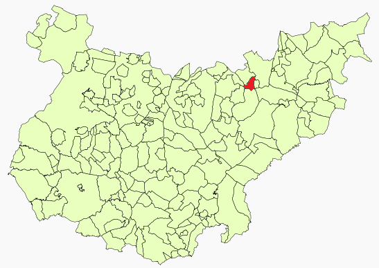 Orellana la Vieja